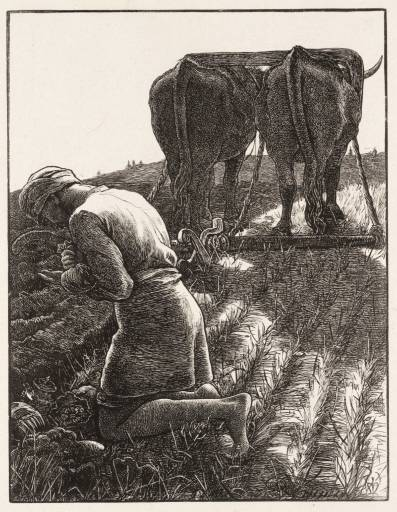 The Hidden Treasure, from "Illustrations to 'The parables of our Lord'", engraved by the Dalziel Brothers, Tate Collection